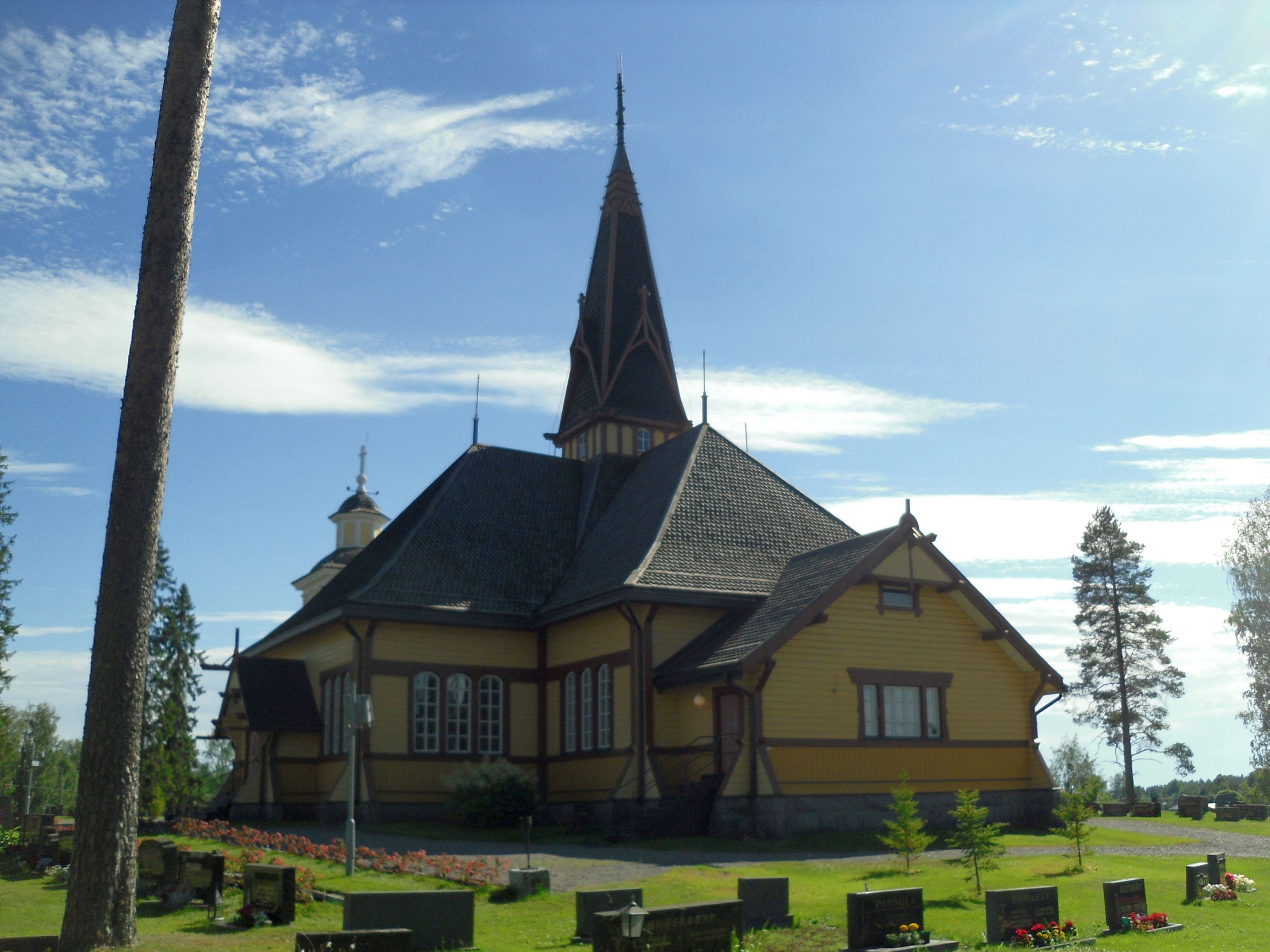 Perho Church in Perho, Finland